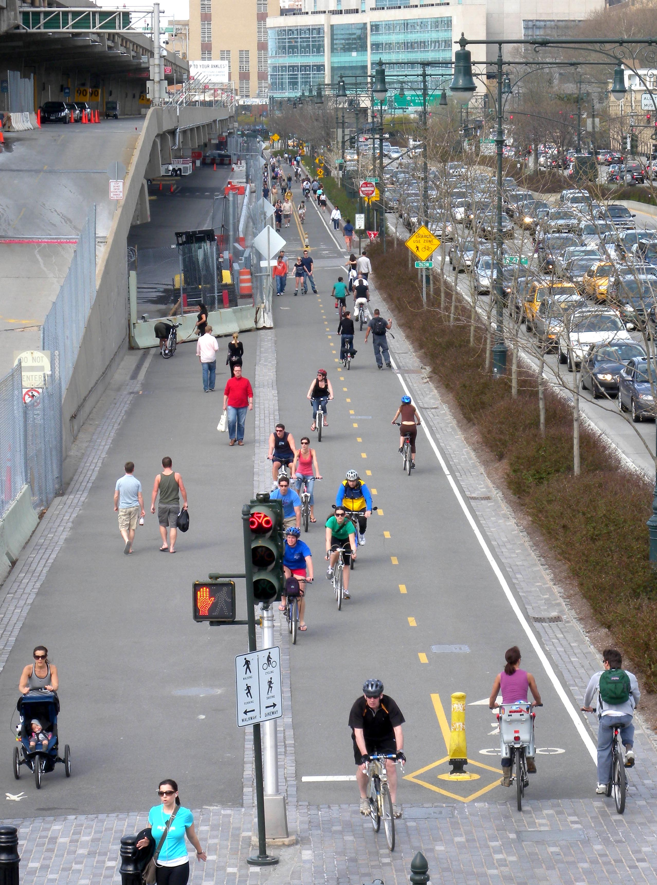 Looking north from 46th Street pedestrian overpass at Hudson River Greenway.